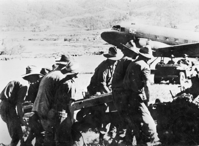 Japanese unsuccessfully attack Wau. At Wau aerodrome 25-pounders are unloaded. At this stage the Japanese were only a short distance from the aerodrome. These guns were assembled and went straight into action.